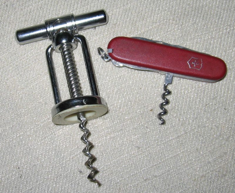 cork-screw